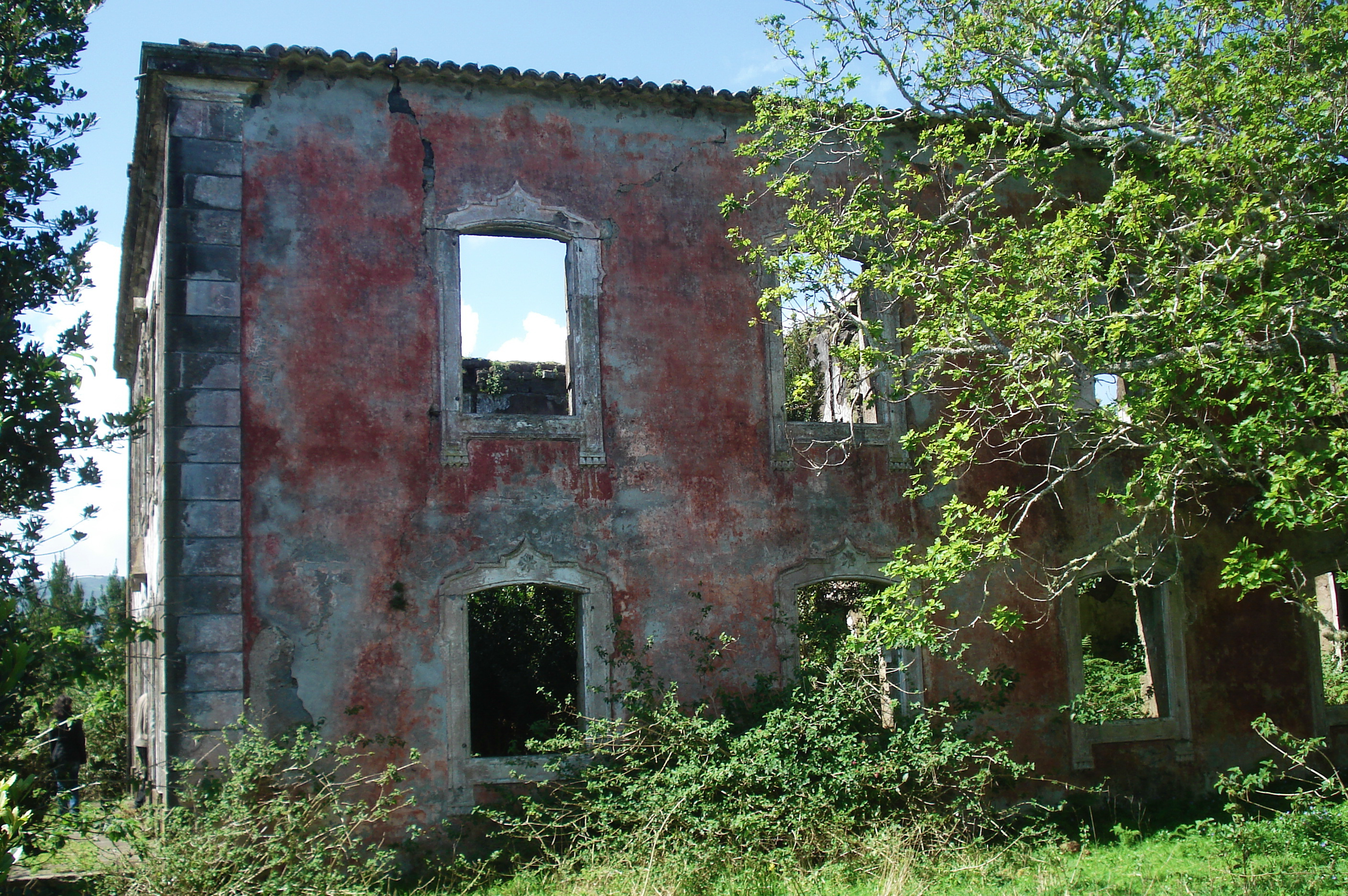 The eastern facade of the Palacete of Pilar, showing the reddish-tinged walls, still preserved, in the civil parish of Conceição, municipality of Horta (Azores), Portugal